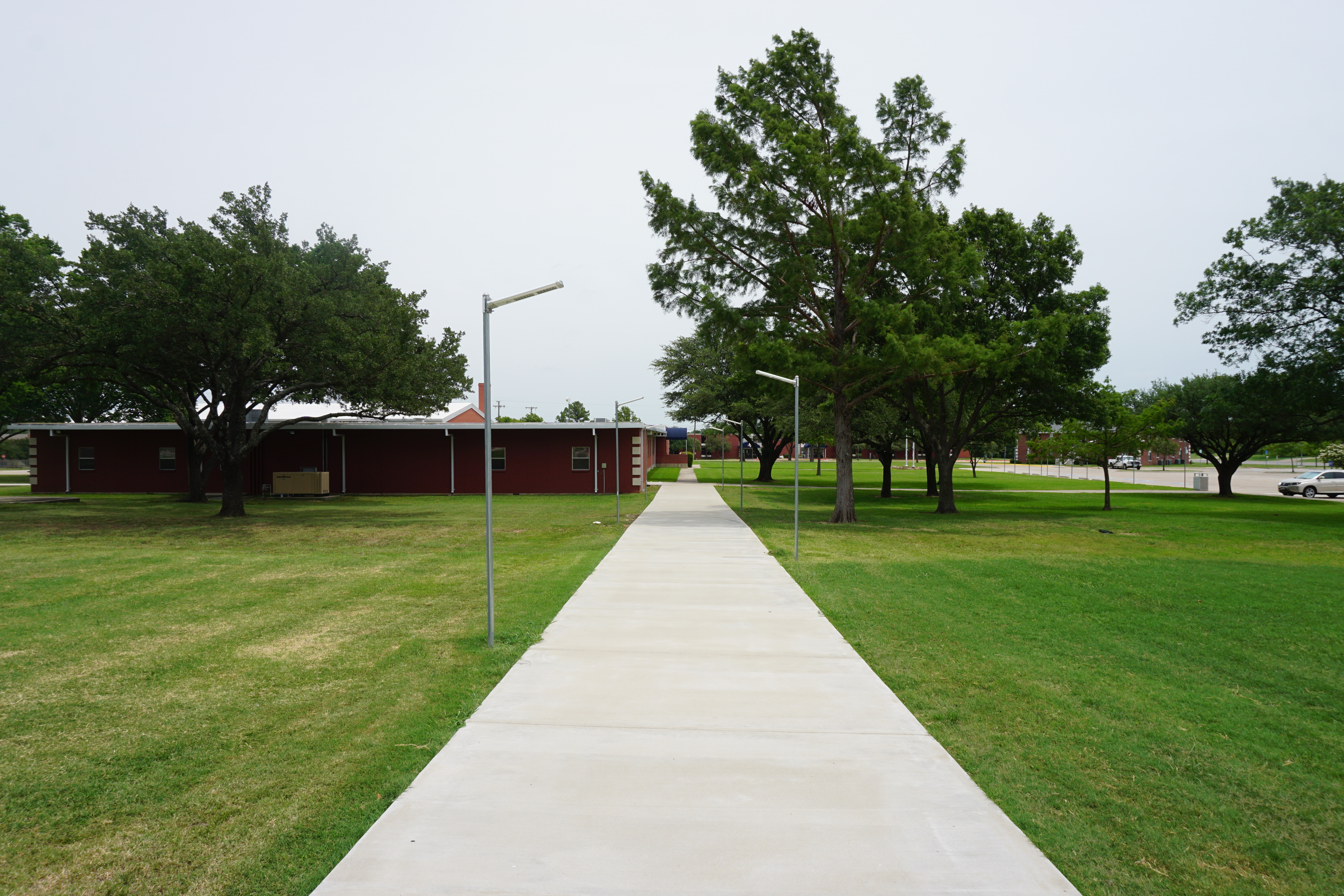 The campus of North Central Texas College in Gainesville, Texas (United States).